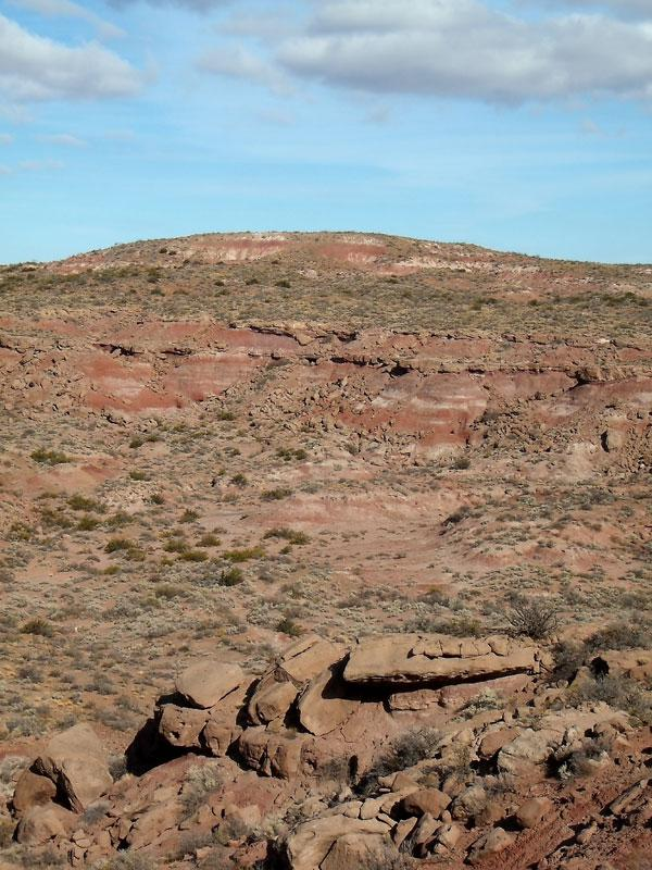 Candeleros fm. (Upper Cretaceous) near Cerro El Vagon, Neuquen, Argentina.